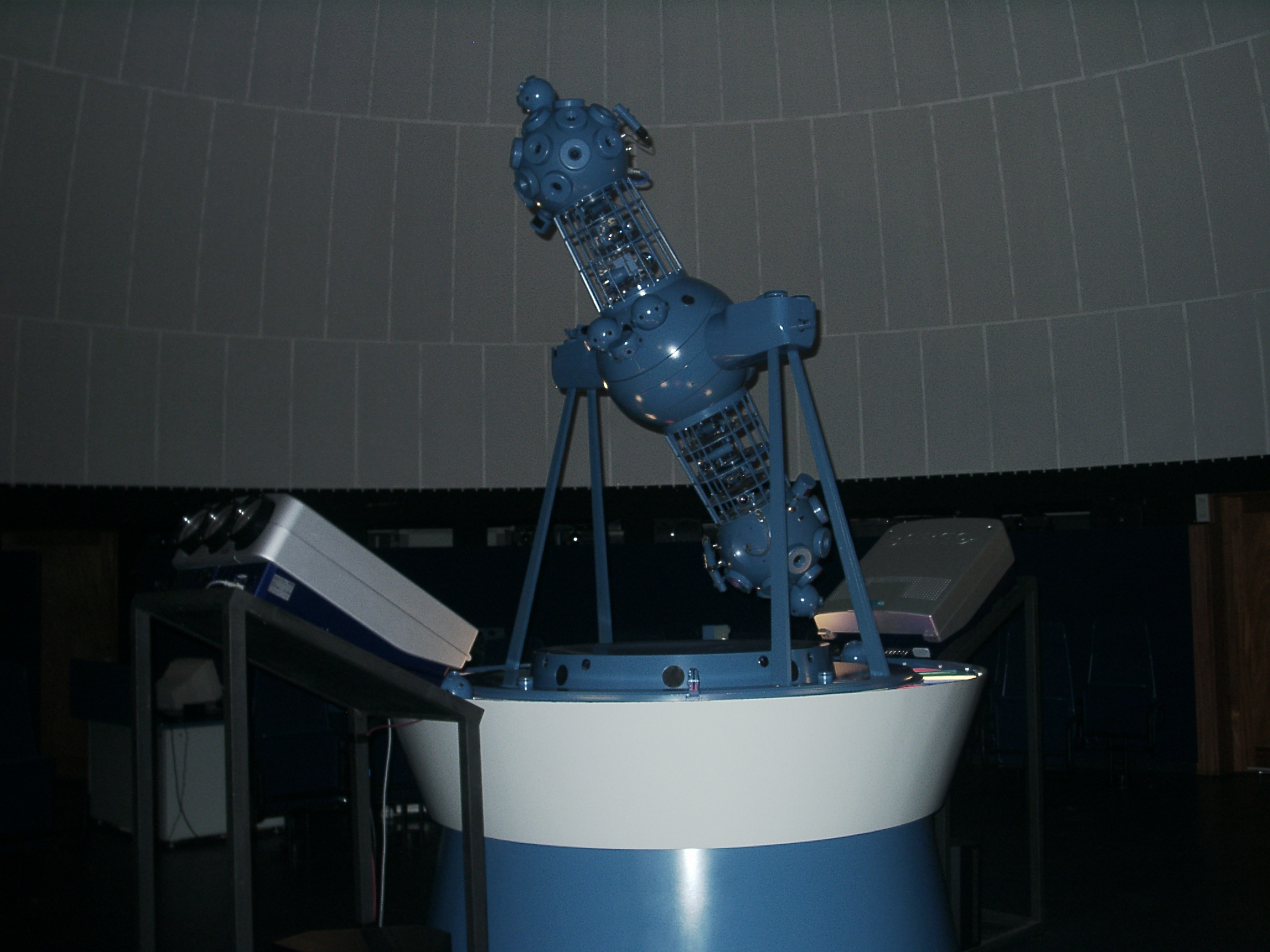 Inside the Dome of the Planetarium of Porto (Portugal) - detail of the star projector Zeiss Spacemaster RFP DP3 (decommissioned in 2014)